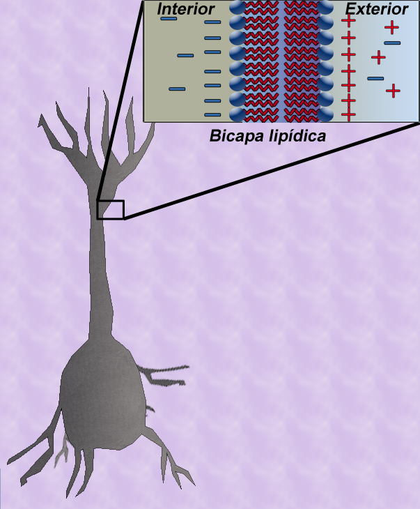 Neuron capacitance